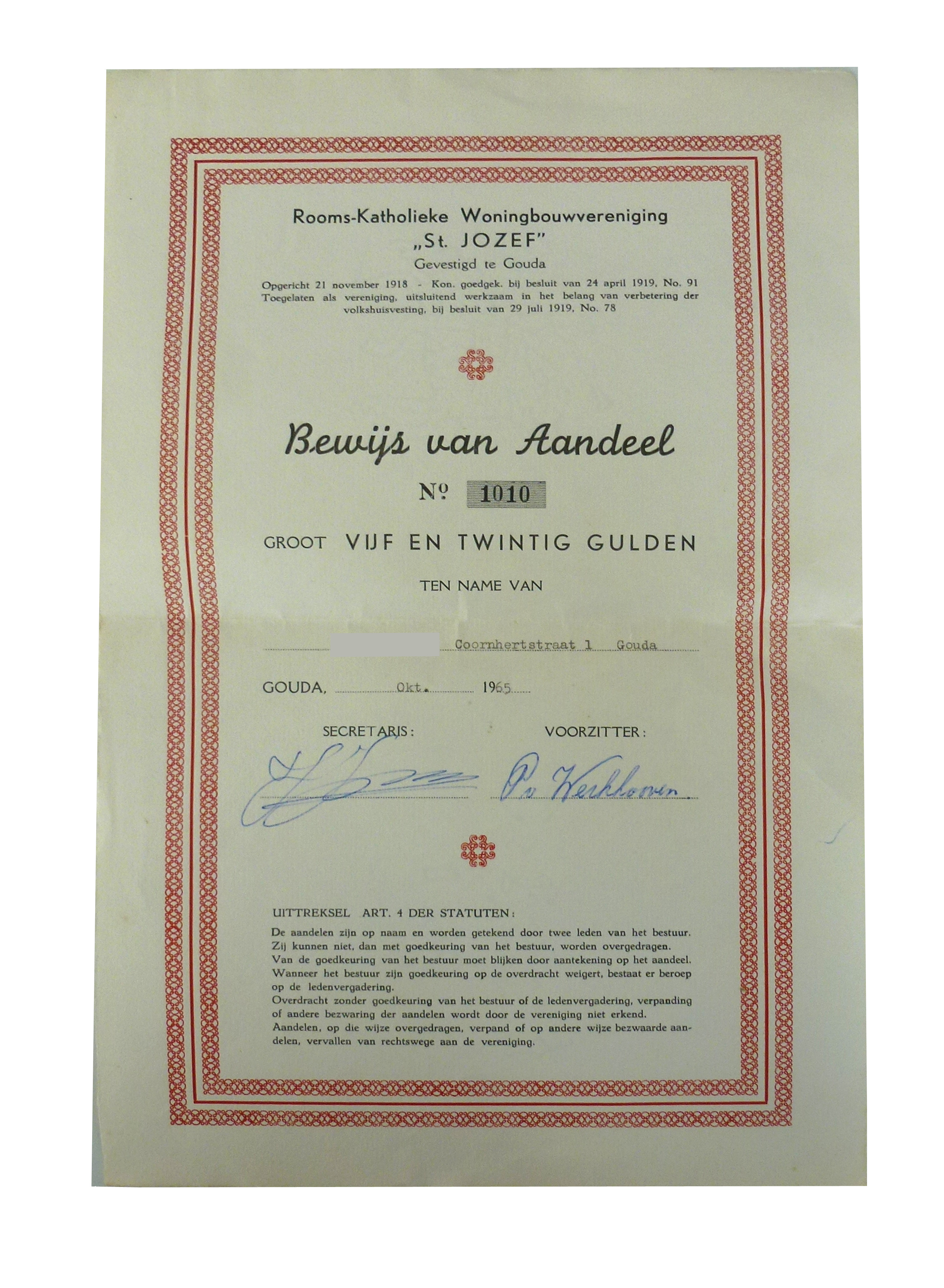 Stock certificate from 1965